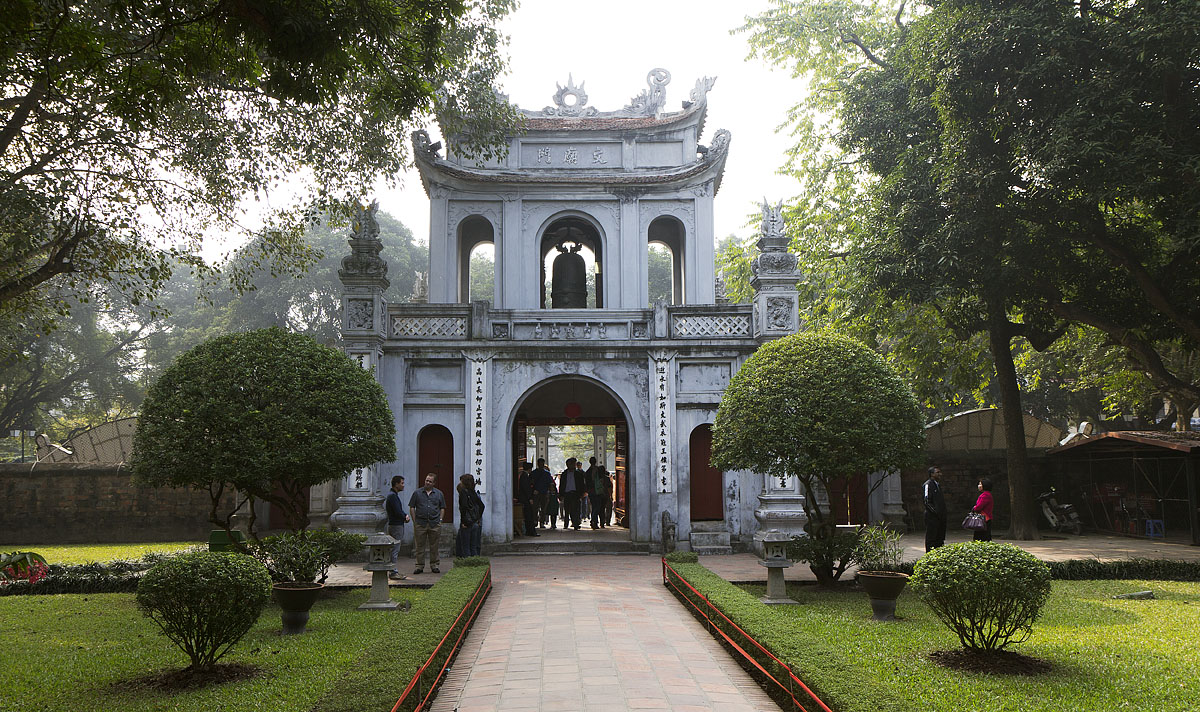 Main gate of the temple of literature, Hanoi